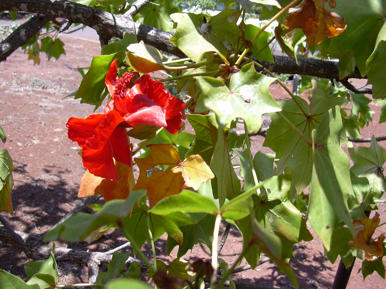 Kokia cookei (flower and leaves). Location: Maui, State nursery Kahului